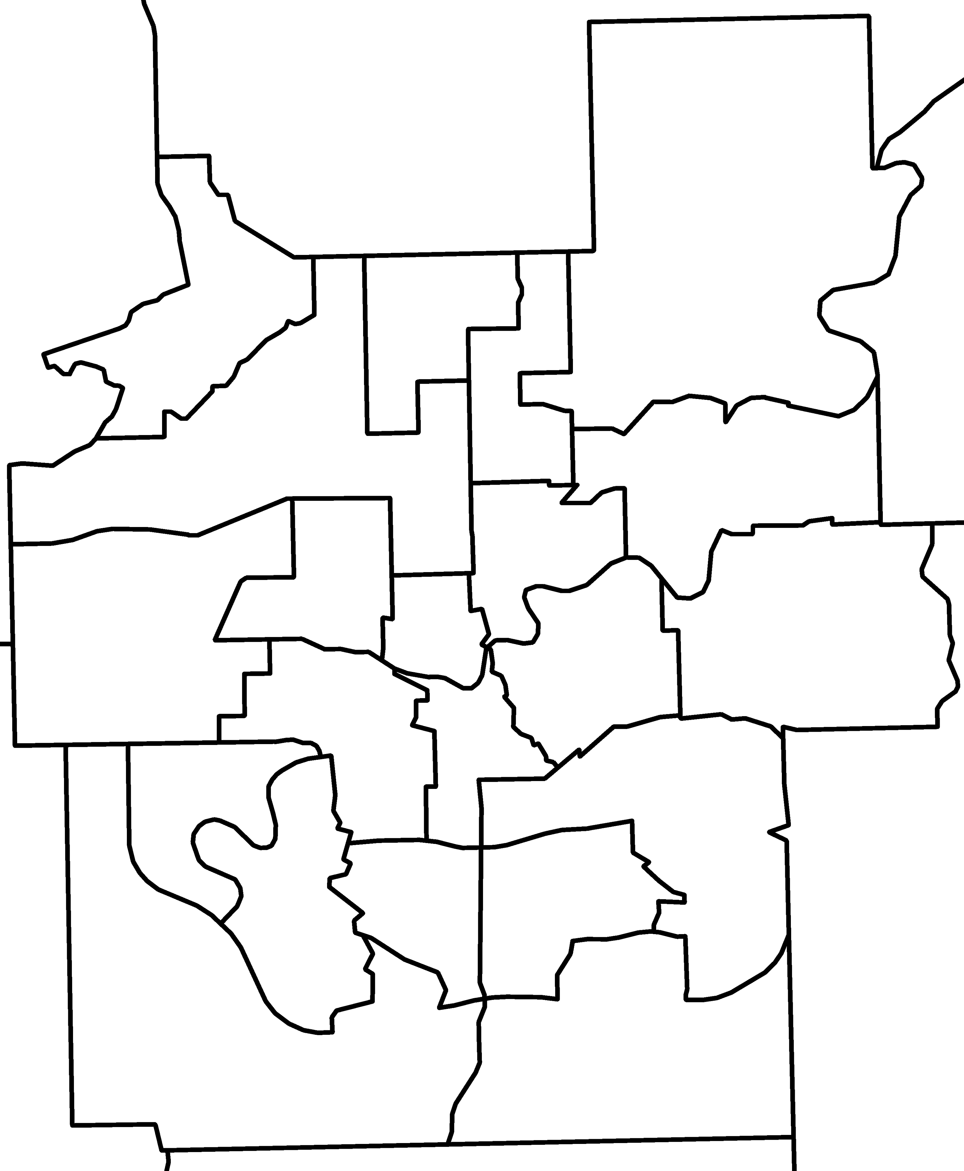 A map of Alberta provincial electoral districts, effective 2010, in the Edmonton area.